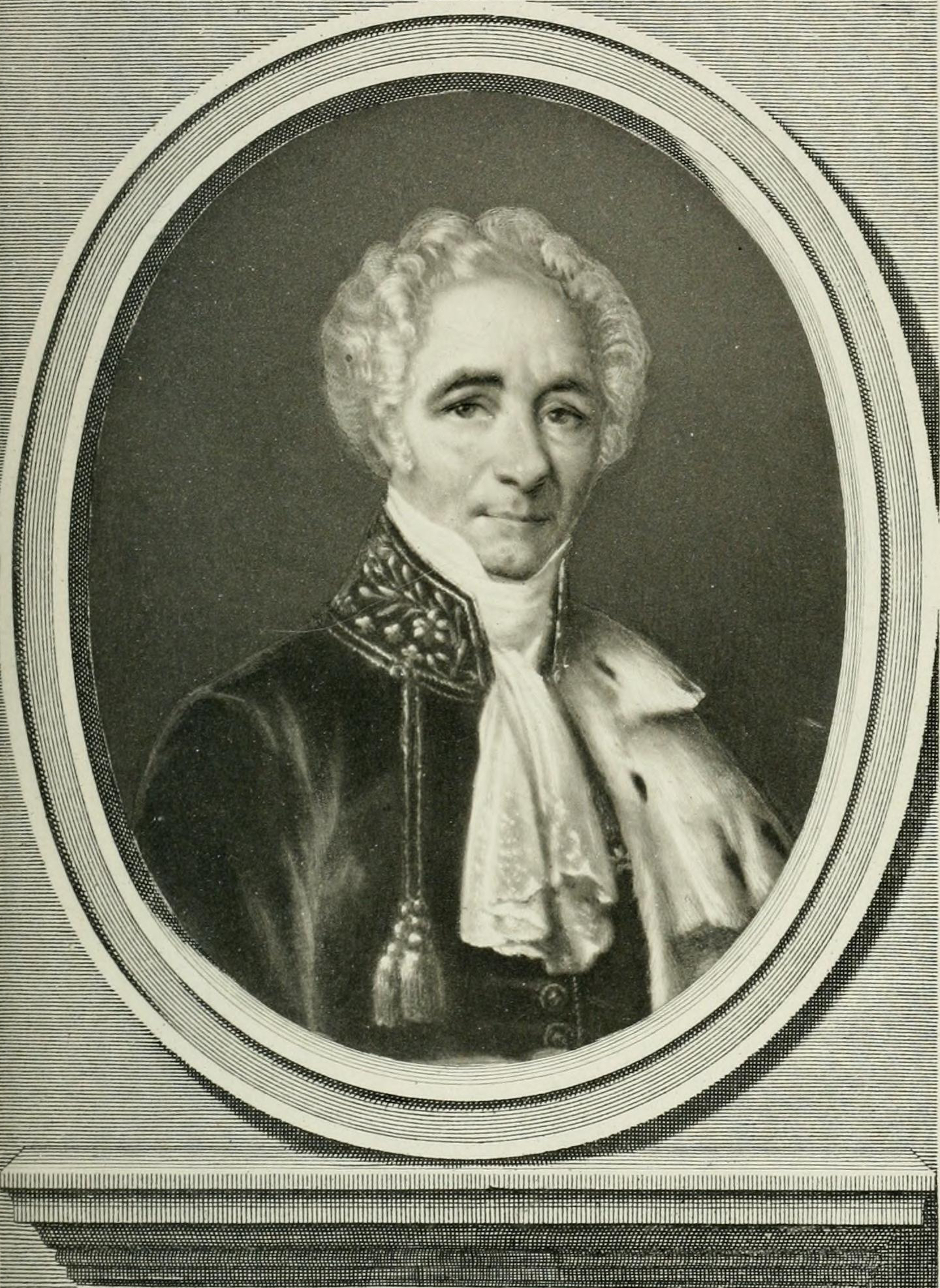 Armand-Victoire de Moré de Pontgibaud (1786–1855), French aristocrat.